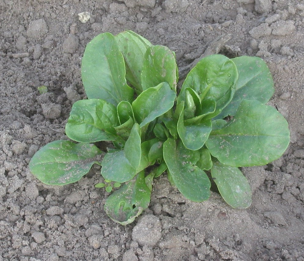 Valerianella olitoria